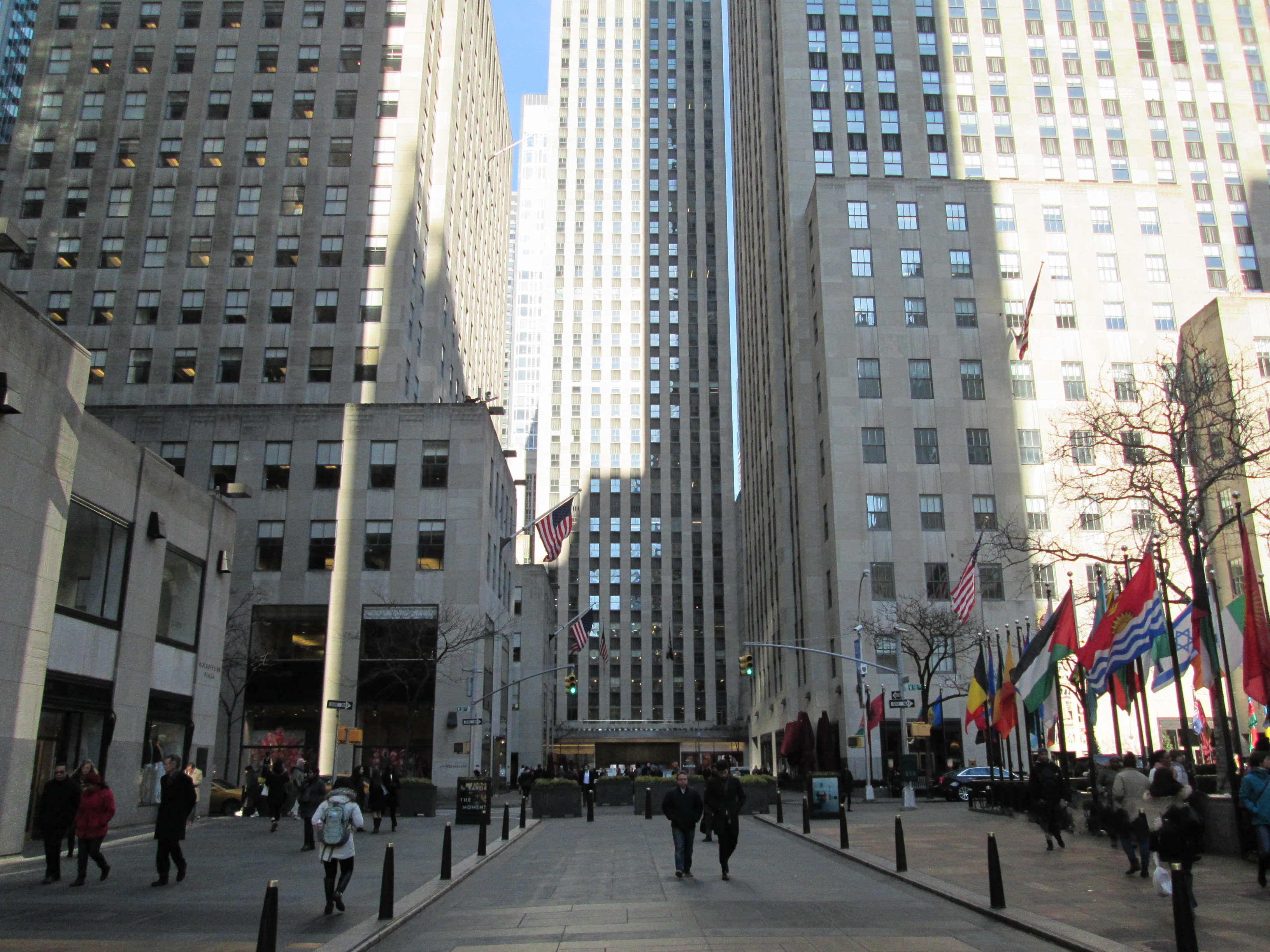 Rockefeller Plaza, New York City, as seen in January 2018